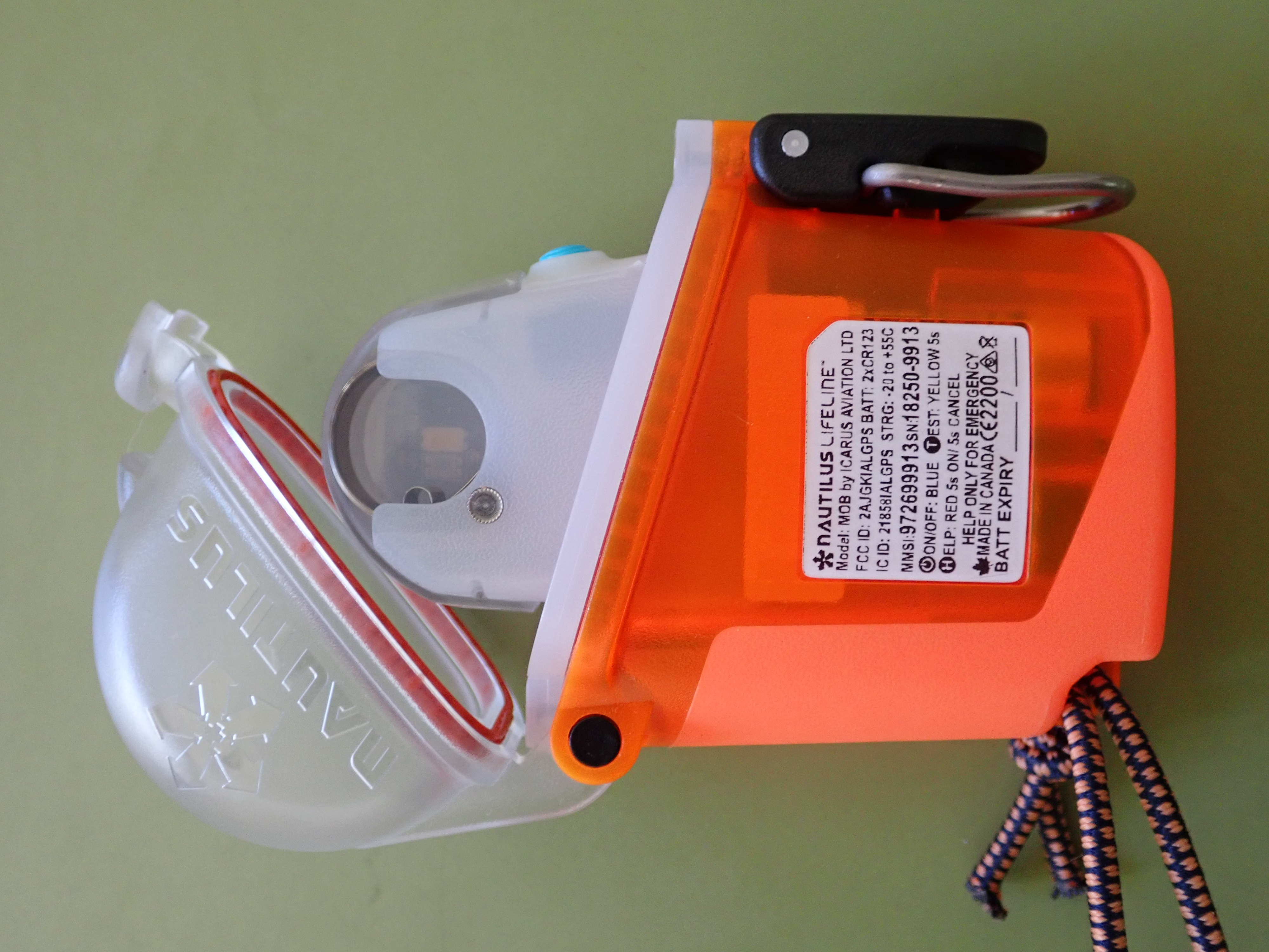 Emergency locator beacon for divers which can send a signal to VHF radio or AIS recievers on vessels in the vicinity. Waterproof to 130msw